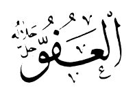 This is one of the 99 Names of Allah.